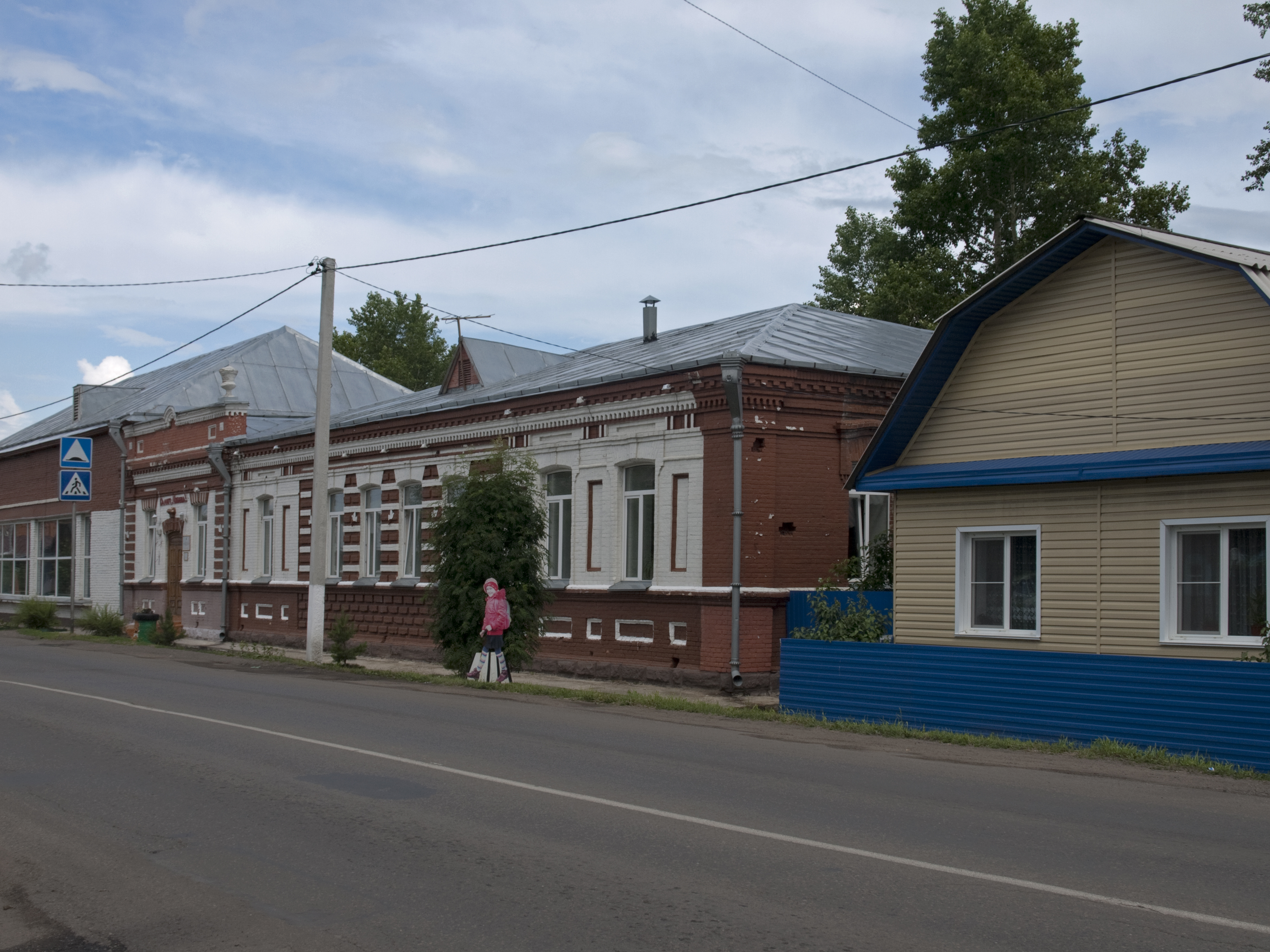 Rabochaya Street 12, Mariinsk (center)